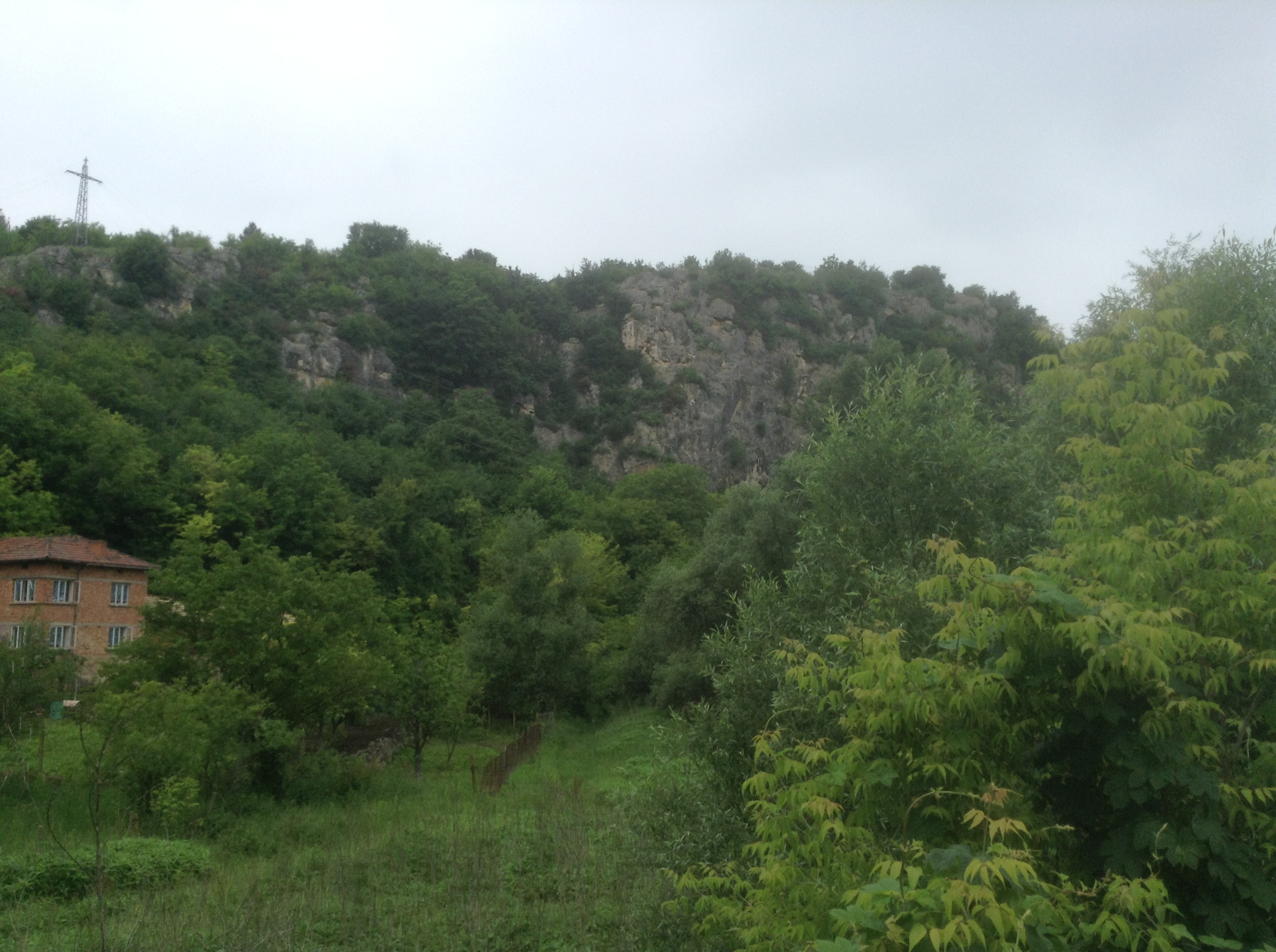 Cherven rocks and bush